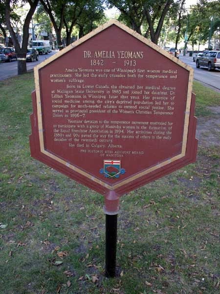 Historical plaque commemorating Canadian physician and suffragist Amelia Yeomans. Erected on the median of Broadway, west of Donald Street, by the Historic Sites Advisory Board of Manitoba. Site Location (lat/long): N49.88753, W97.14062.